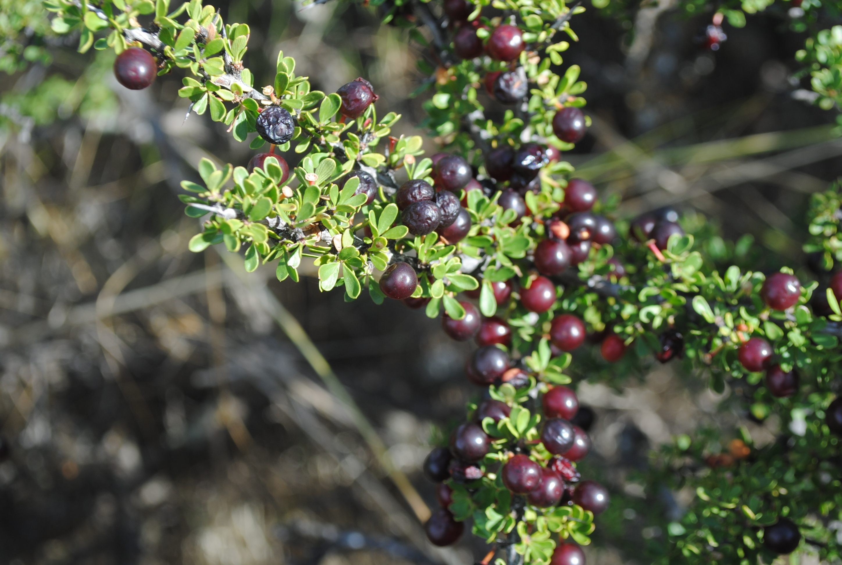 "Piquillín", Condalia microphylla plant bearing well mature fruits at Las Grutas, Río Negro province, Patagonia, Argentina